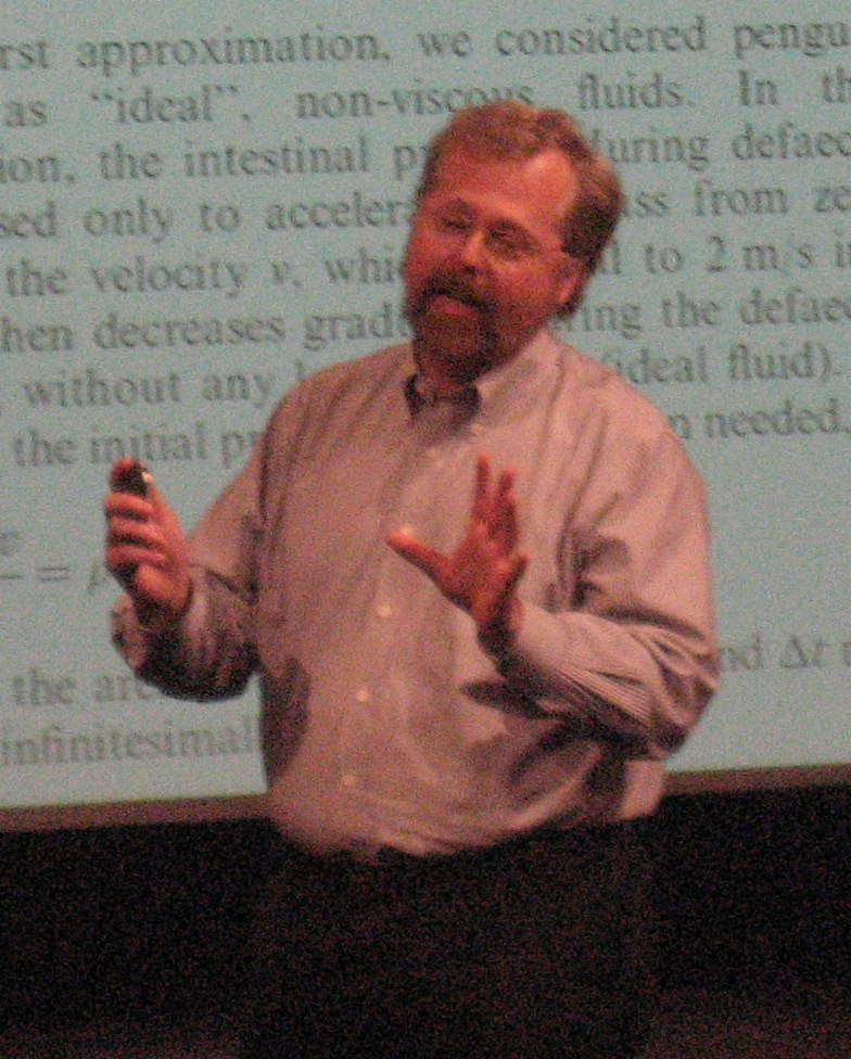 Discussing his research on penguin defecation and rectal pressure. Licensing